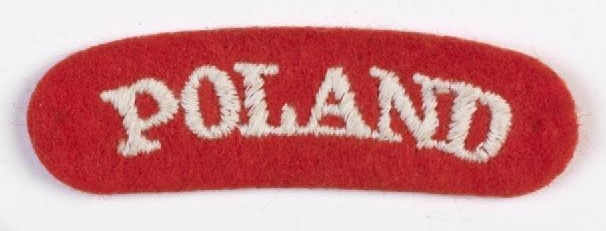 Poland badge. Second World War period Polish Army (post-1939 Free Polish Army) shoulder title.